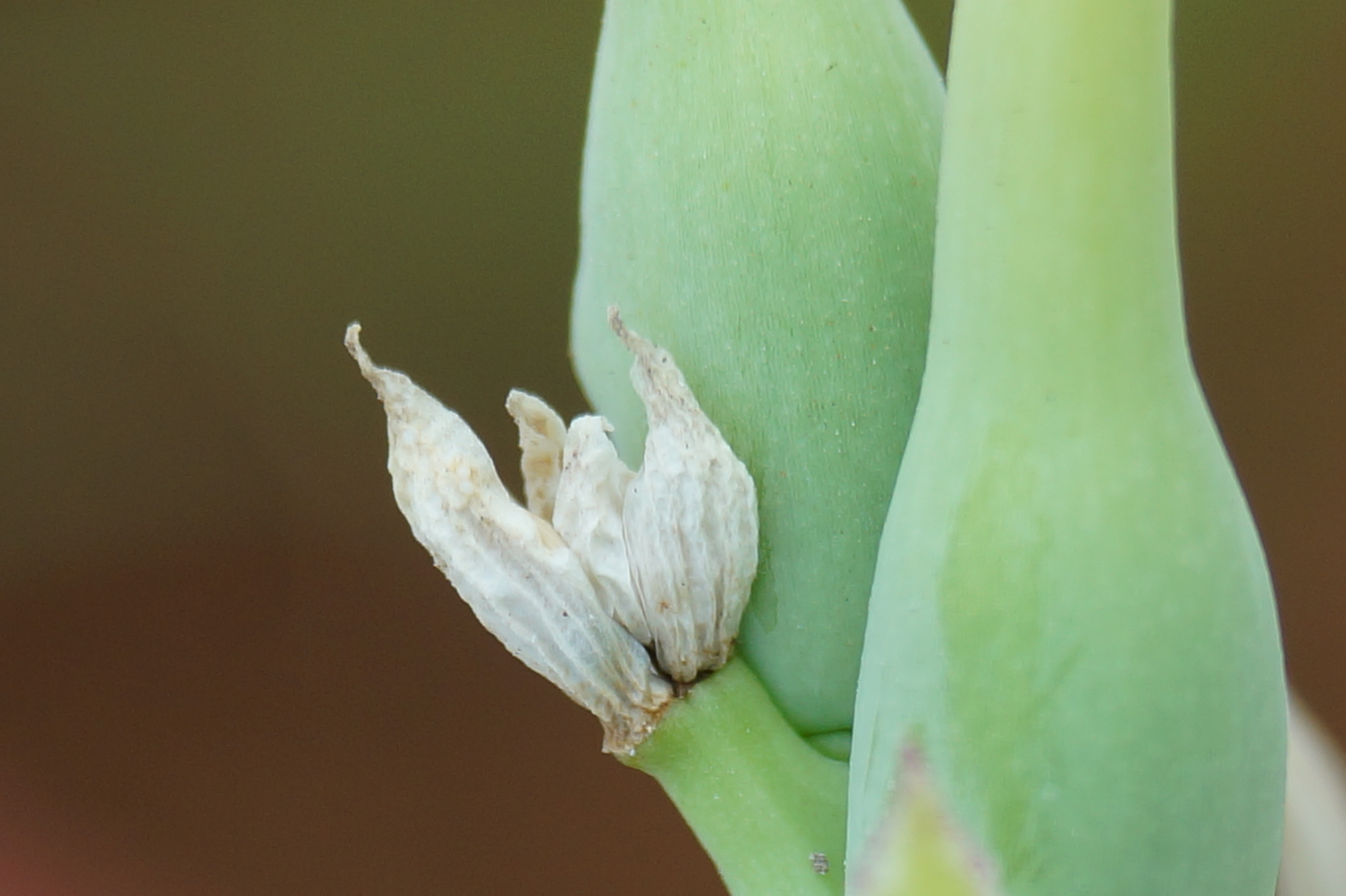 pockets of seeds of tuberose